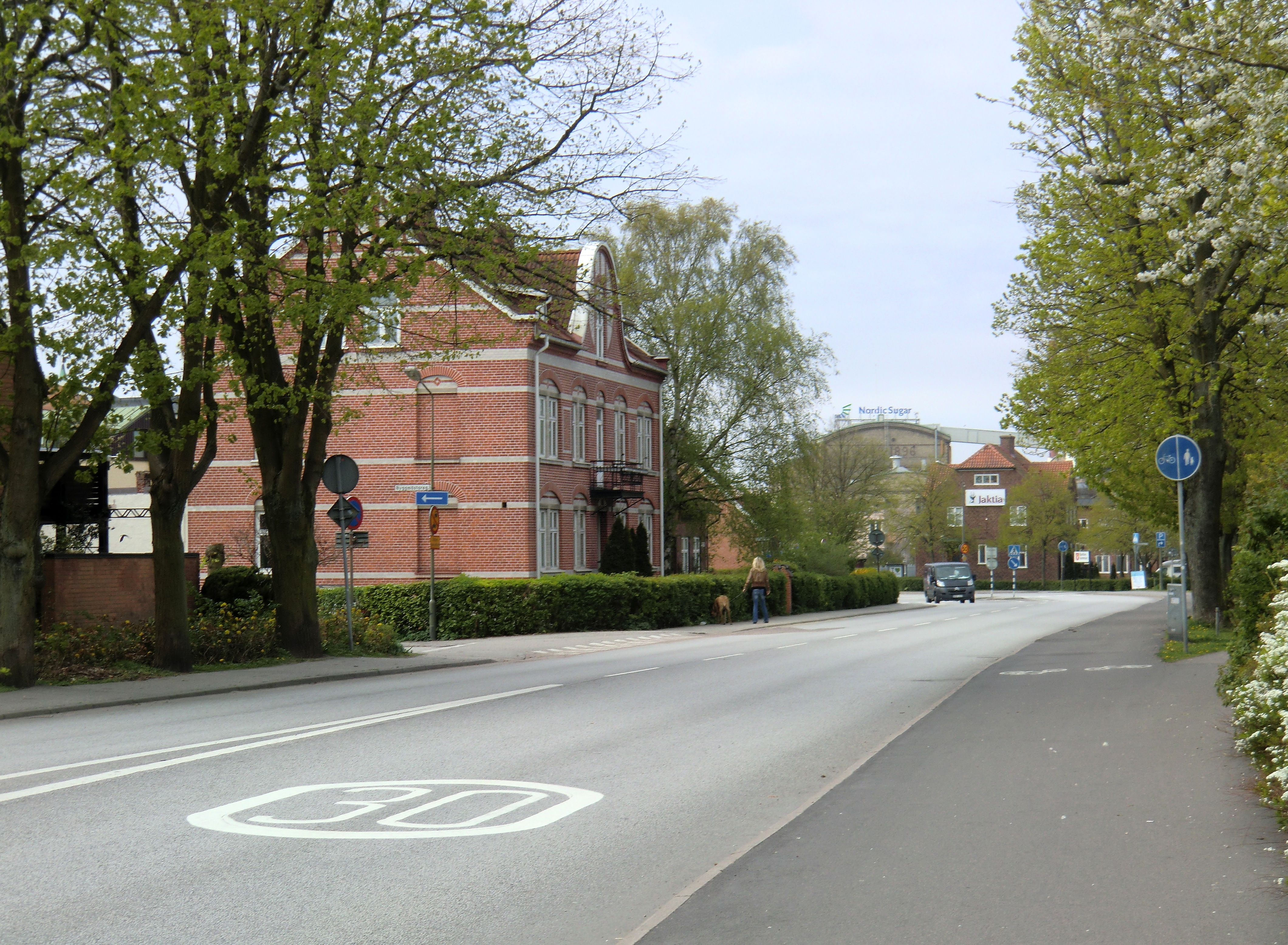 Lundavägen, Arlöv, Burlöv Municipality, Sweden.